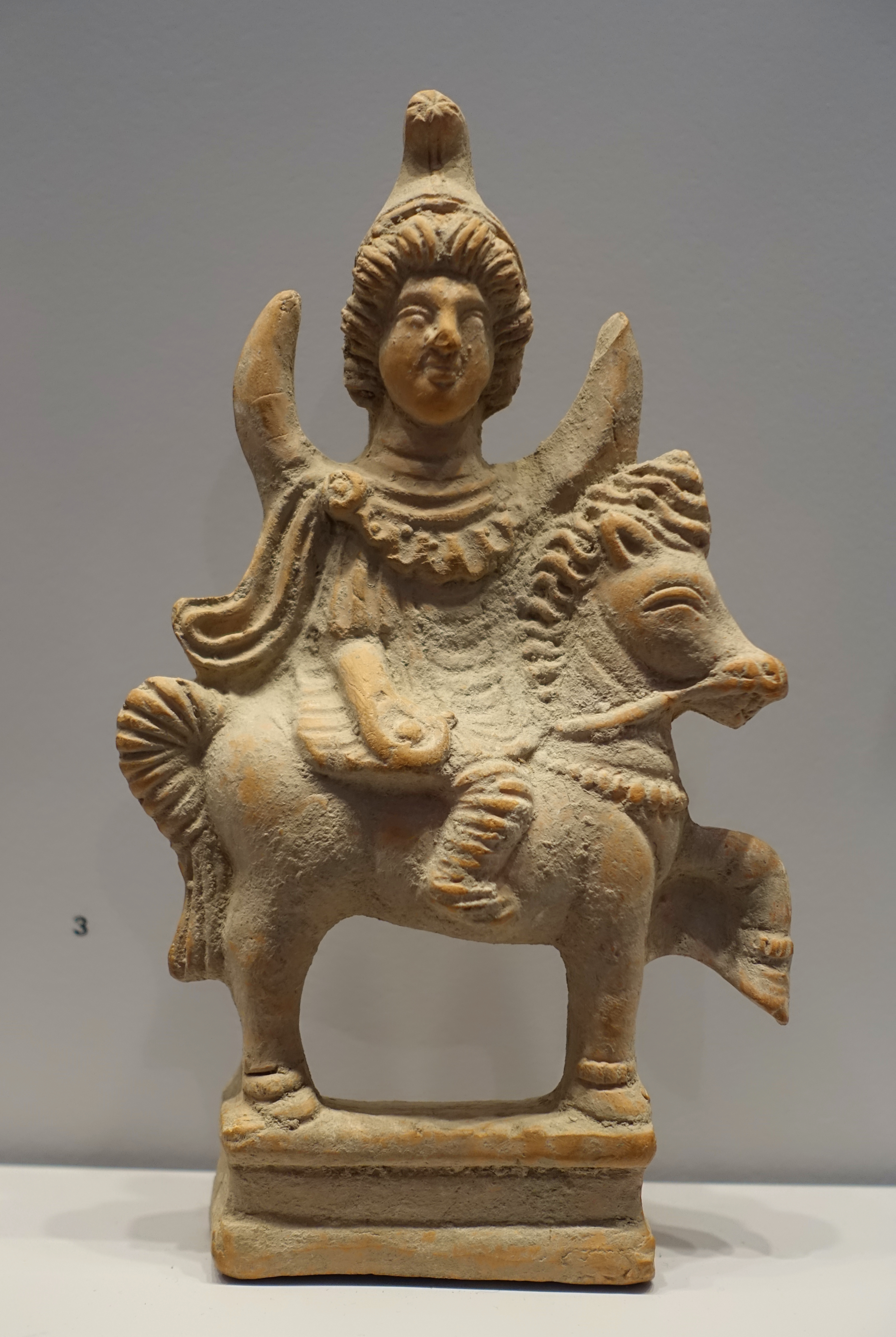 Exhibit in the Sackler Museum, Harvard University - Cambridge, Massachusetts, USA.